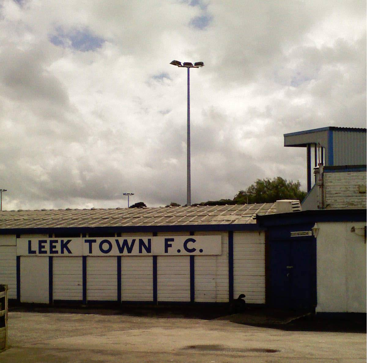 Harrison Park, home ground of Leek Town F.C., photographed by myself on July 1st 2007